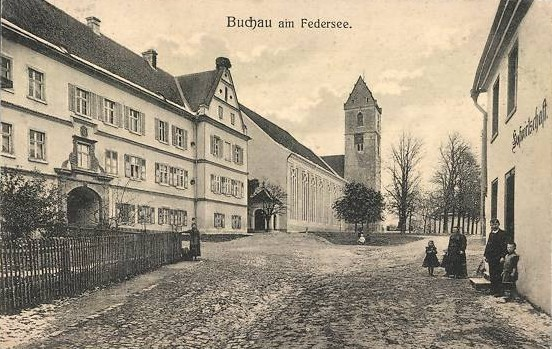 View of former Imperial abbey of Buchau. Circa 1870-1900. Postcard c. 1910, postally used in 1916.